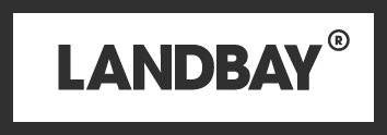 Landbay Logo png